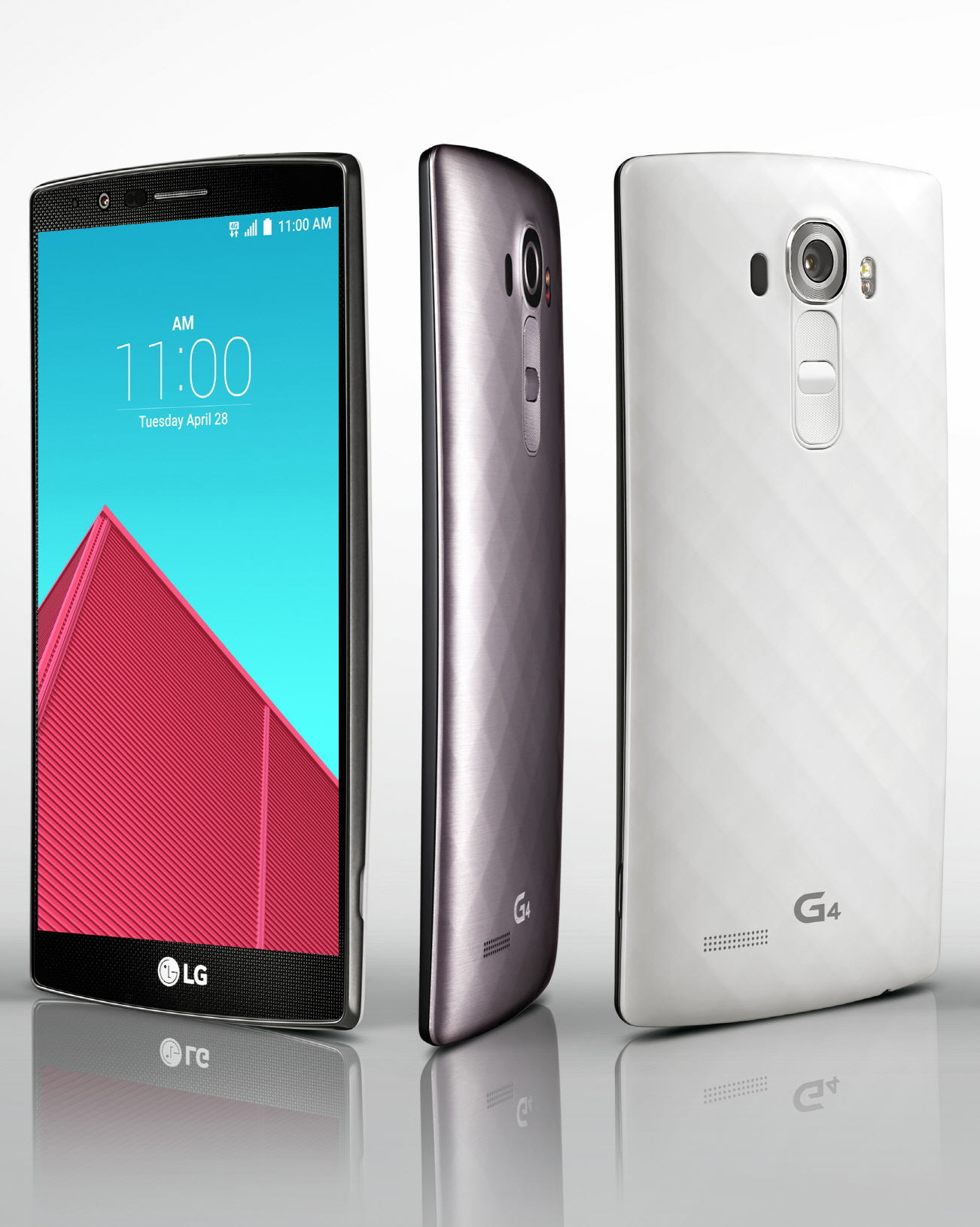 LG G4 (Metallic Gray and Ceramic White)